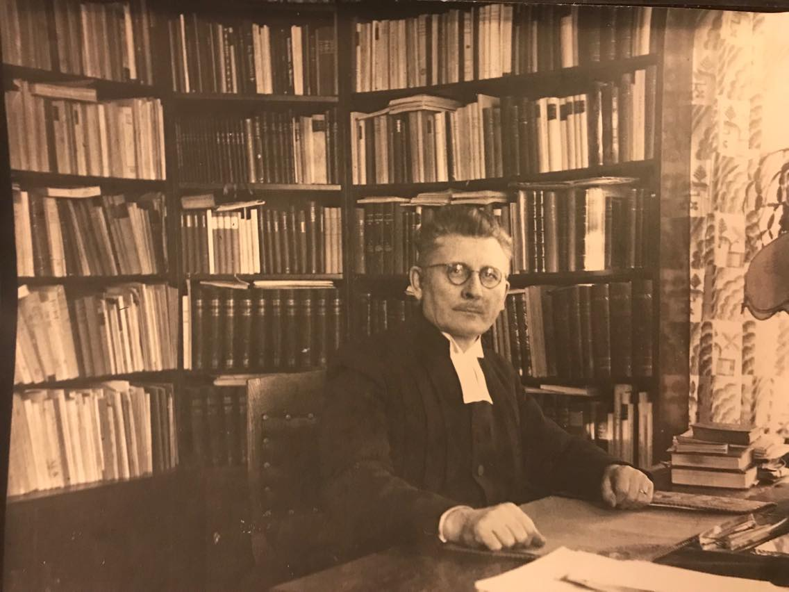 A family photo of Gustav Park on his 60th birthday (9th March 1946), provided by relative Margareta Asplund.